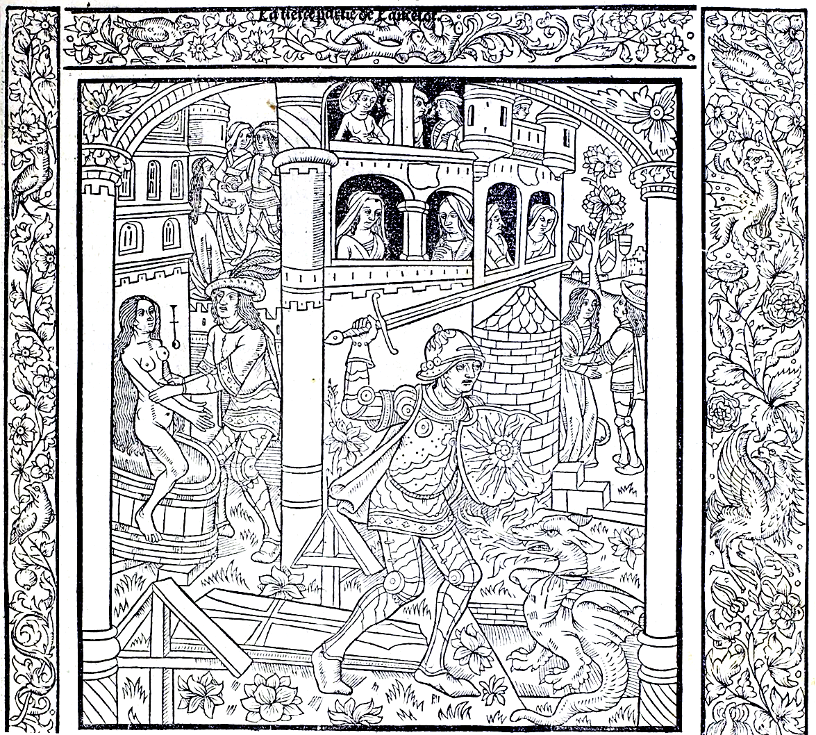 Decorative woodcuts from a 1488 early printed edition of part of the Lancelot-Grail cycle (Lancelot's life, the Knights of the Round Table, and the quest for the Grail). [Auct. 2Q 4.5]